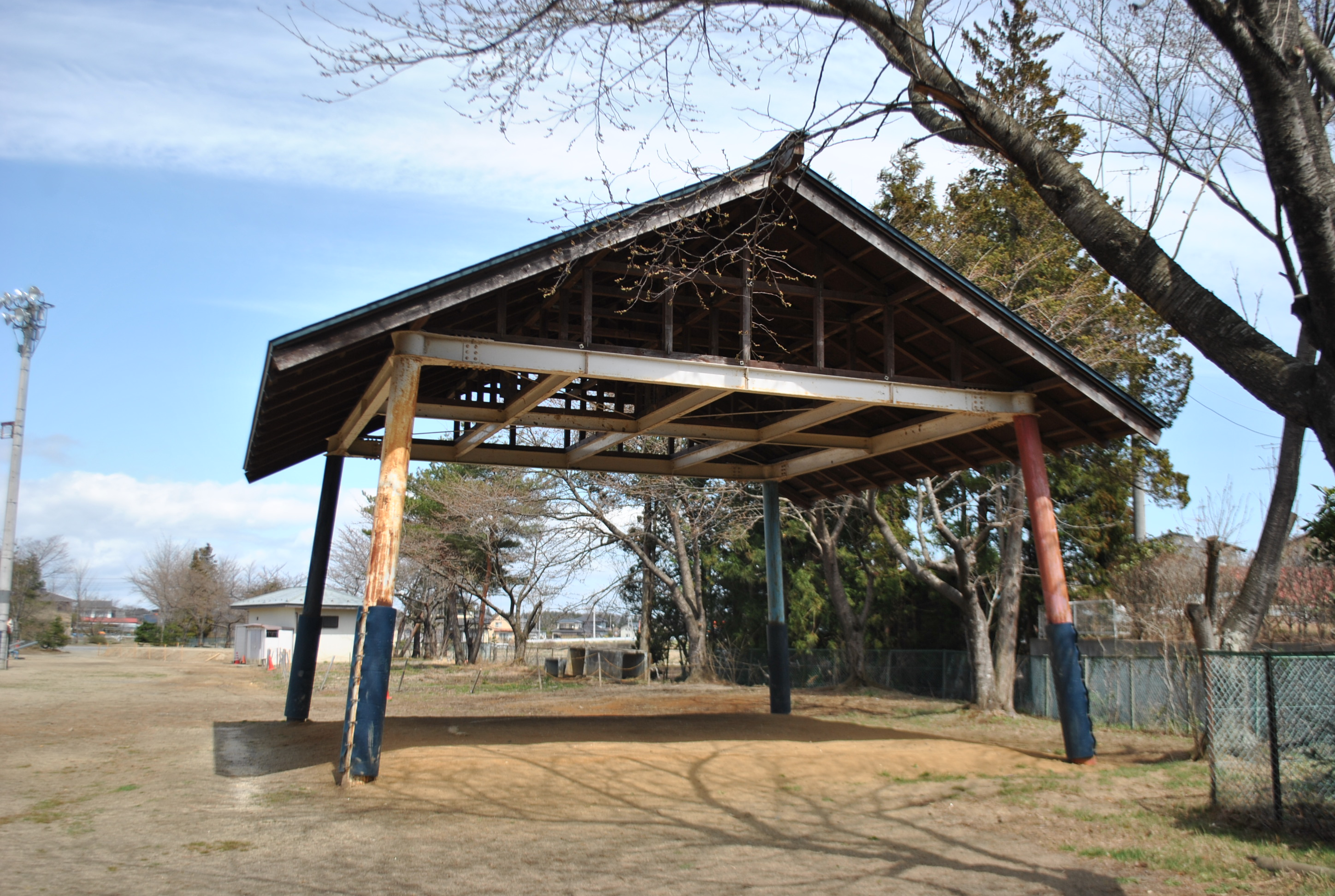 Zengo Elementary School in Yabuki Town, Fukushima Pref., Japan.